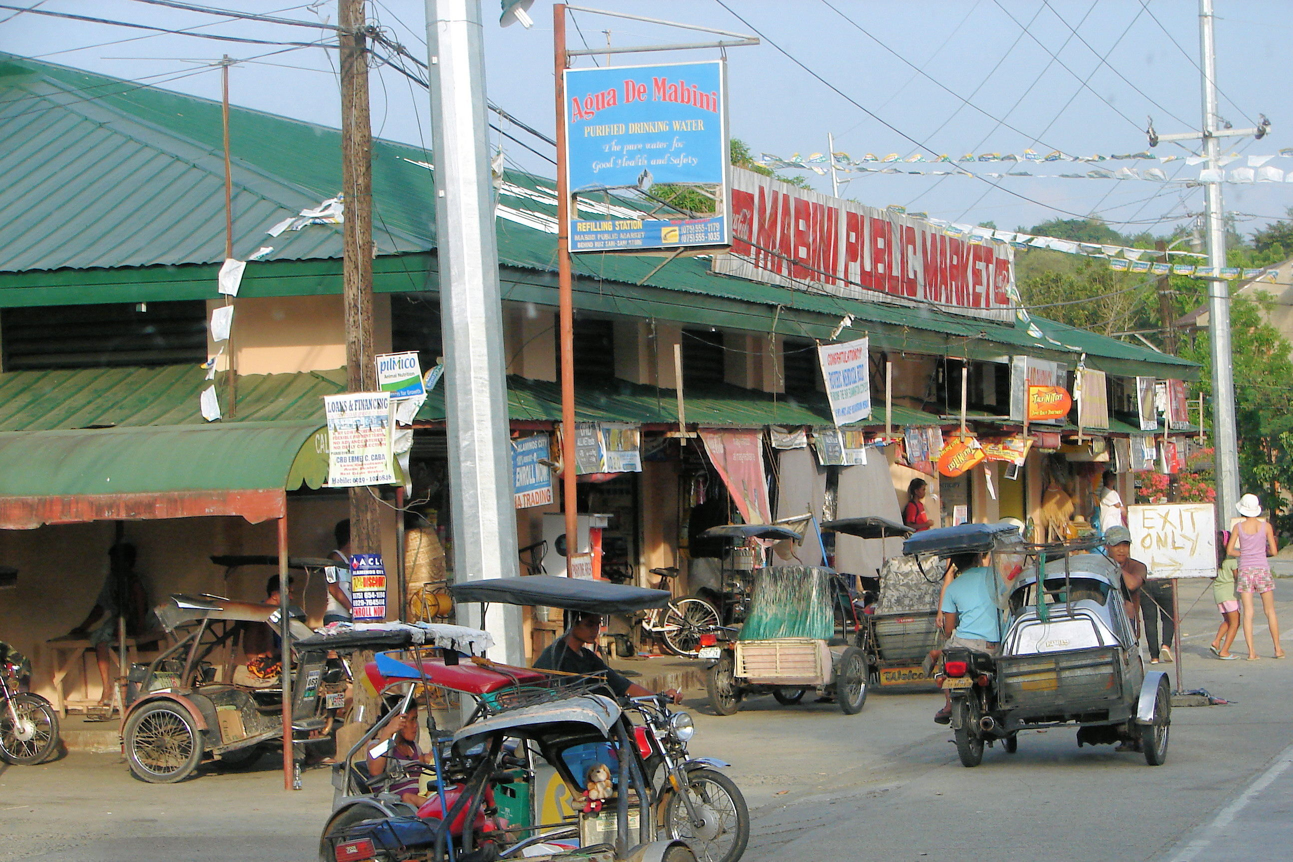 Market of Mabini, Pangasinan, Philippines